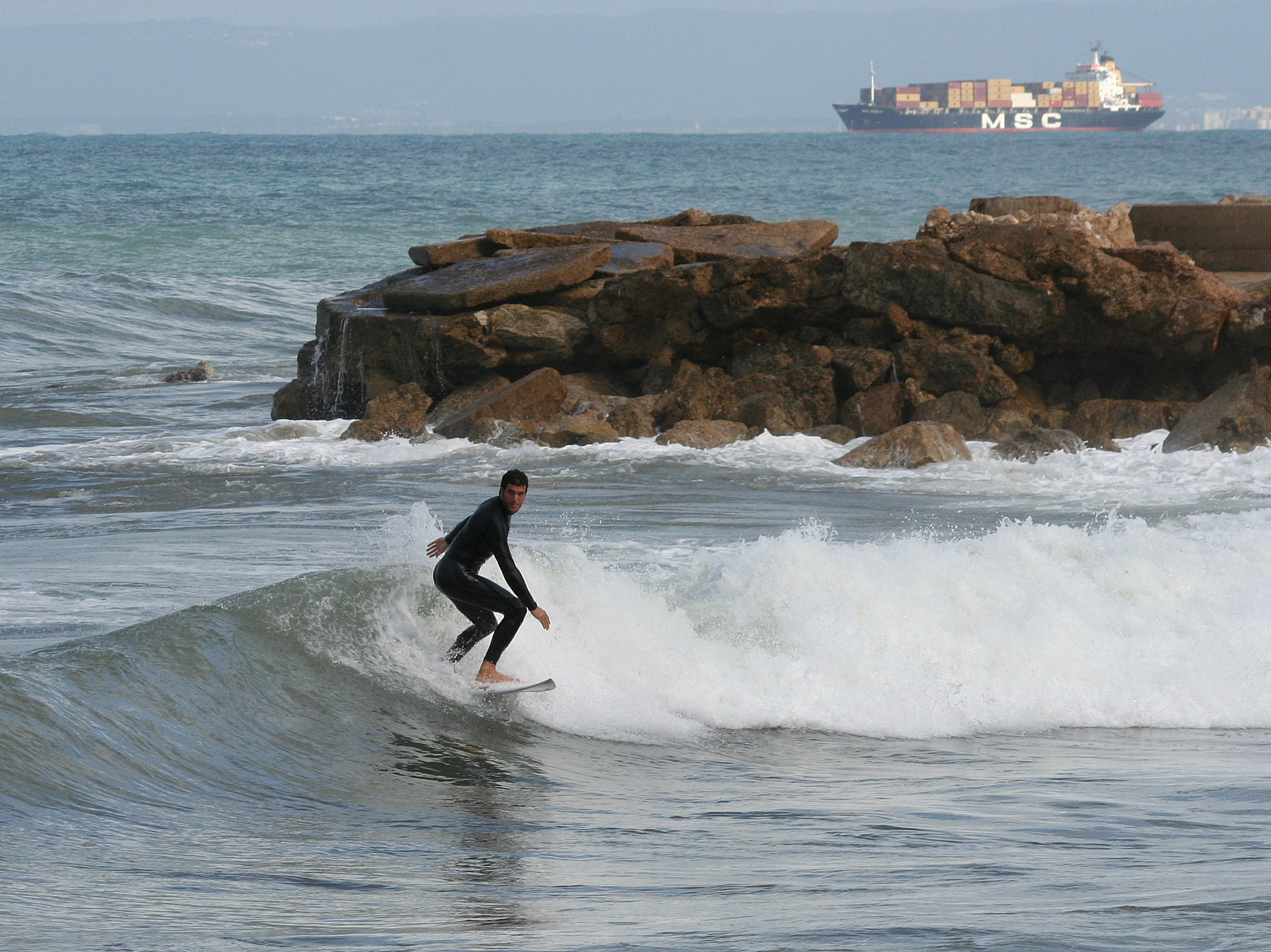 Backdoor Pro 2012, Bat Galim, Haifa, Men's competition.